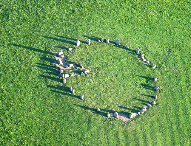 Castlerigg Stone Circle, Keswick, Cumbria, Great Britain. This view shows the arrangement of the stones in this impressive prehistoric monument.